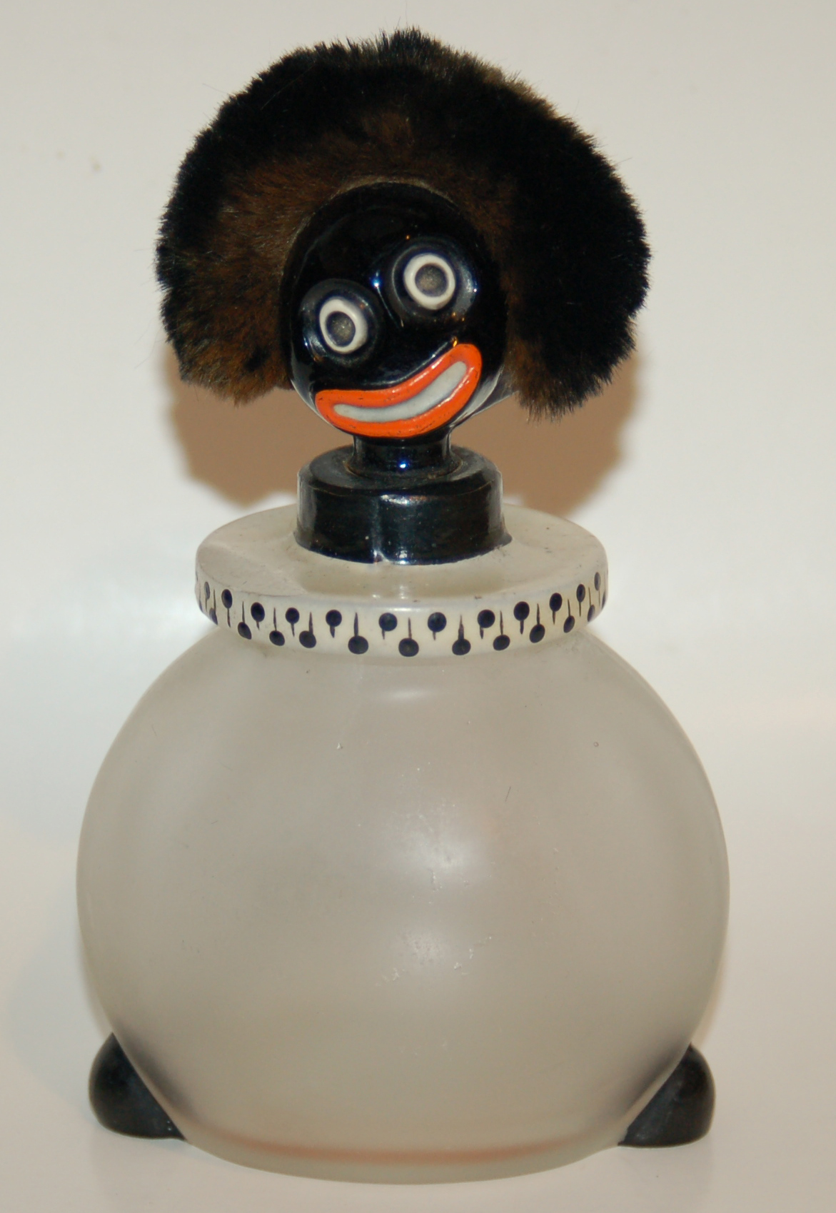 early 20th century glass Golliwogg perfume bottle